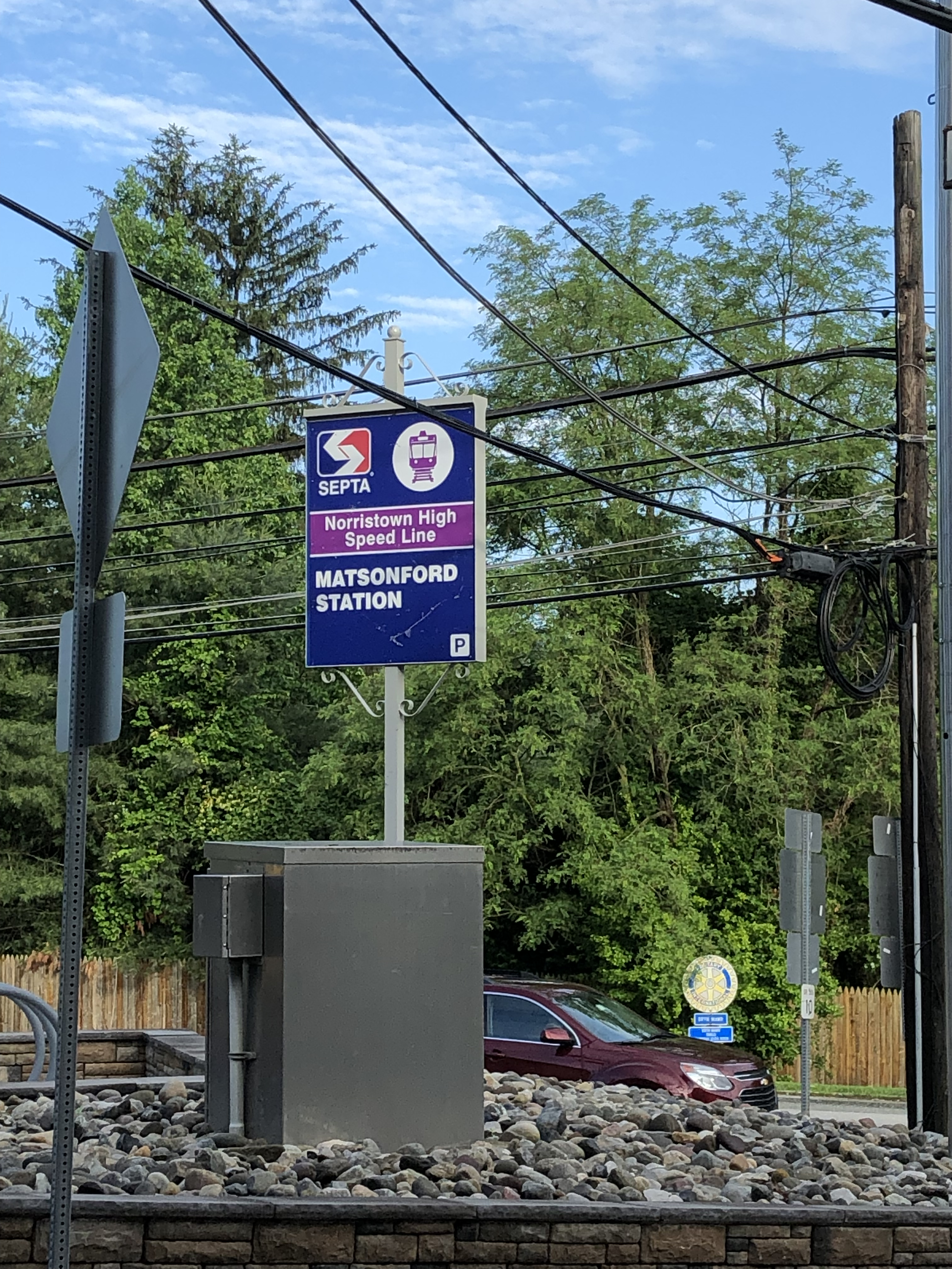 Matsonford Station 2019